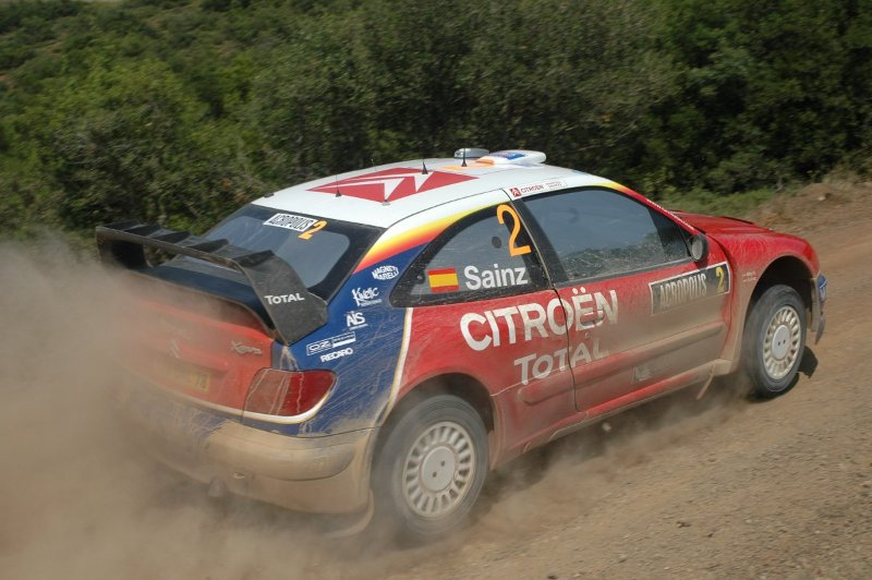 Carlos Sainz driving a Citroën Xsara WRC at the 2005 Acropolis Rally.